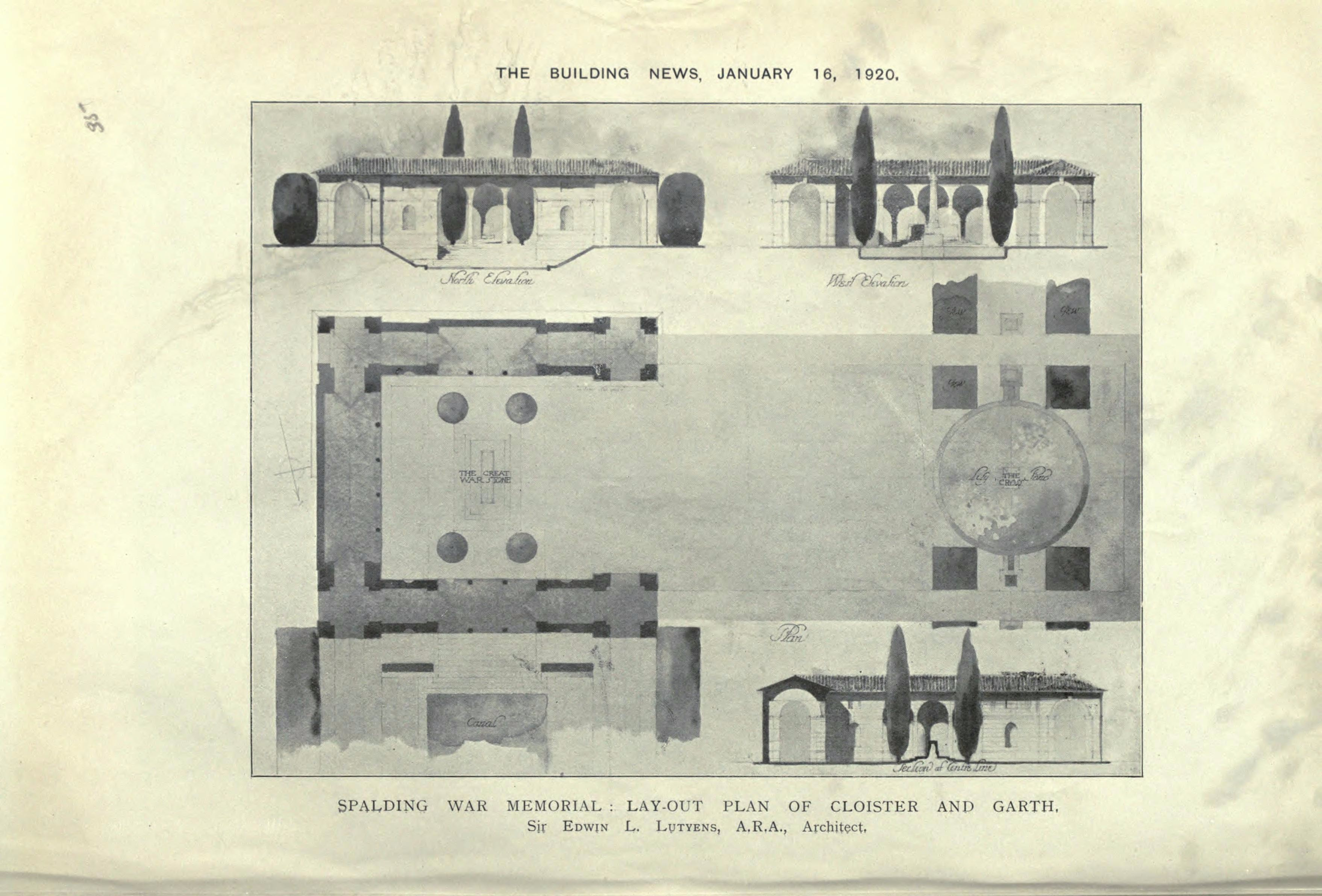 Plans for Spalding War Memorial, drawn up by British architect Edwin Lutyens (1869-1944) and published in volume 118 (1920) of the Building News and Engineering Journal. This illustration (obtained from the Internet Archive here) appears on page 35 of volume 118.